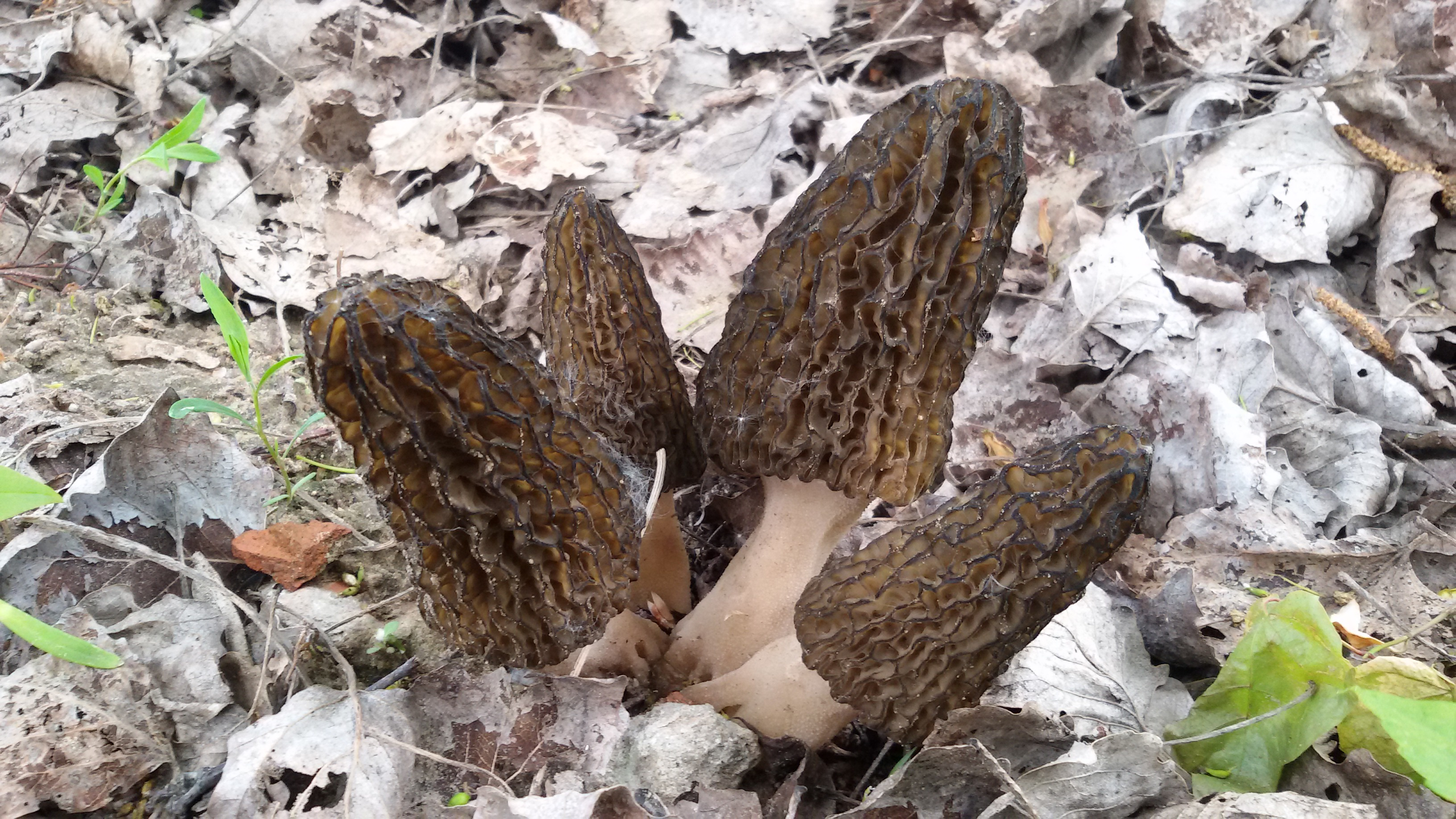 Morchella conica in Powązki Jewish Cemetery in Warsaw.